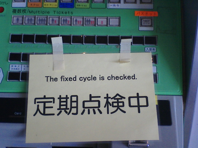 Example of Engrish in Japan. The Japanese note on this ticket vending machine reads 定期点検中 teikitenkenchuu, literally "during periodic inspection", that is, "out of service due to periodic inspection" or "undergoing routine maintenance".